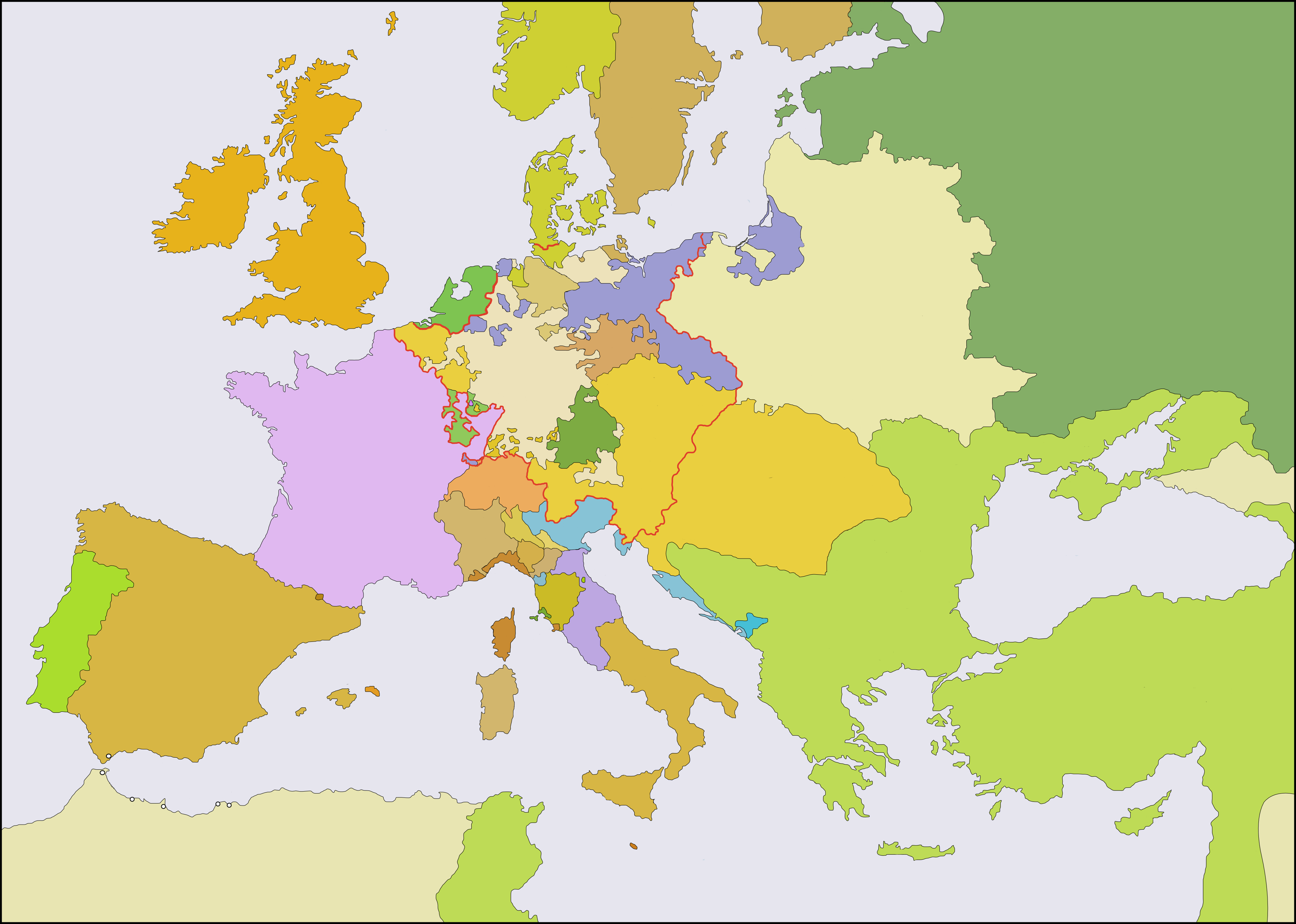 This map shows Europe in the years after the Treaty of Aix-la-Chapelle 1748 and the Seven Years' War (1756-1763). Europe did not see another major geographical change until 1766. The red line marks the borders of the Holy Roman Empire. The work was created with Inkscape and is mainly based on a map in: Putzger - Historischer Weltatlas, Berlin 1990, 78 pp.